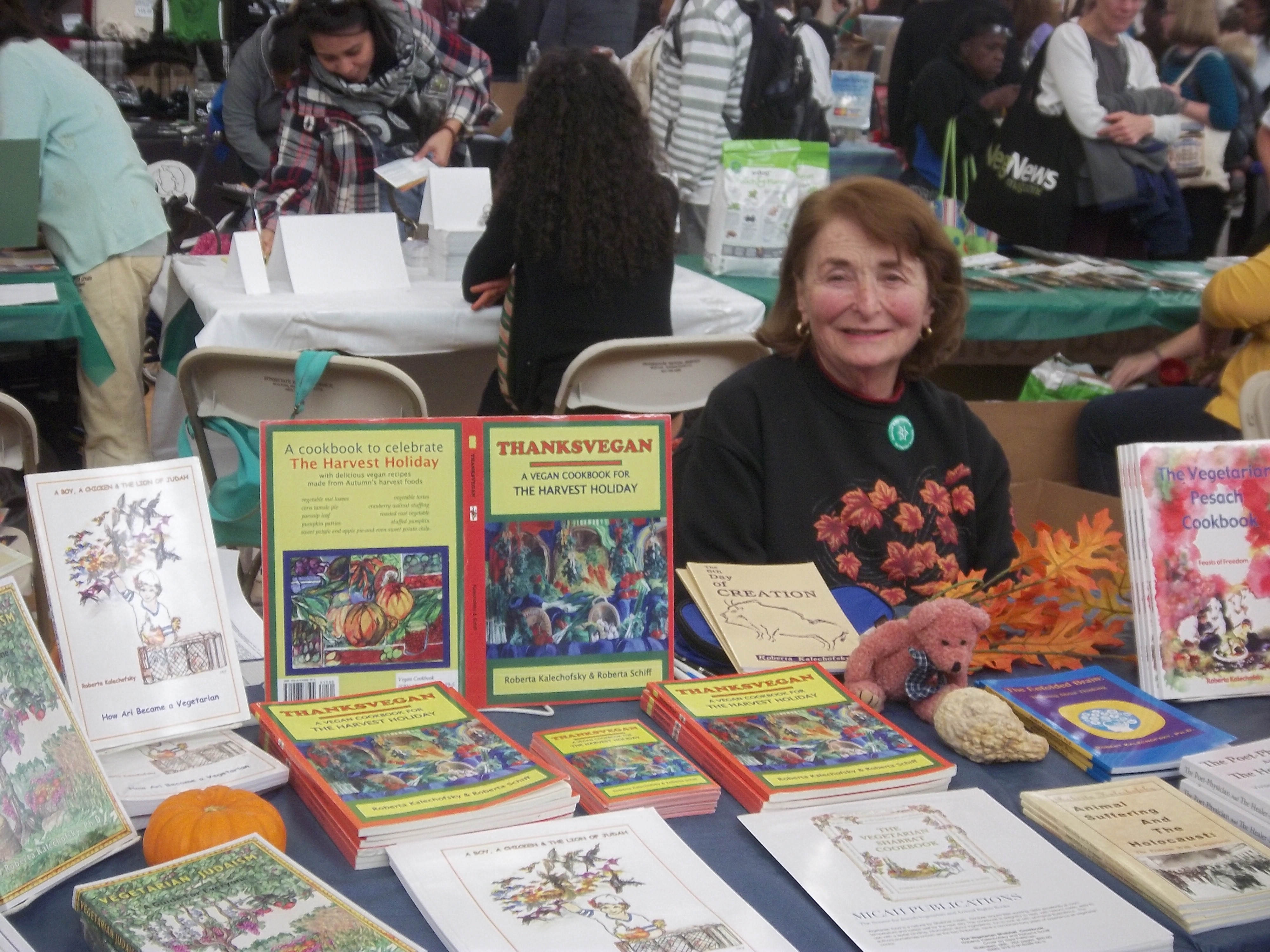 Roberta Kalechofsky